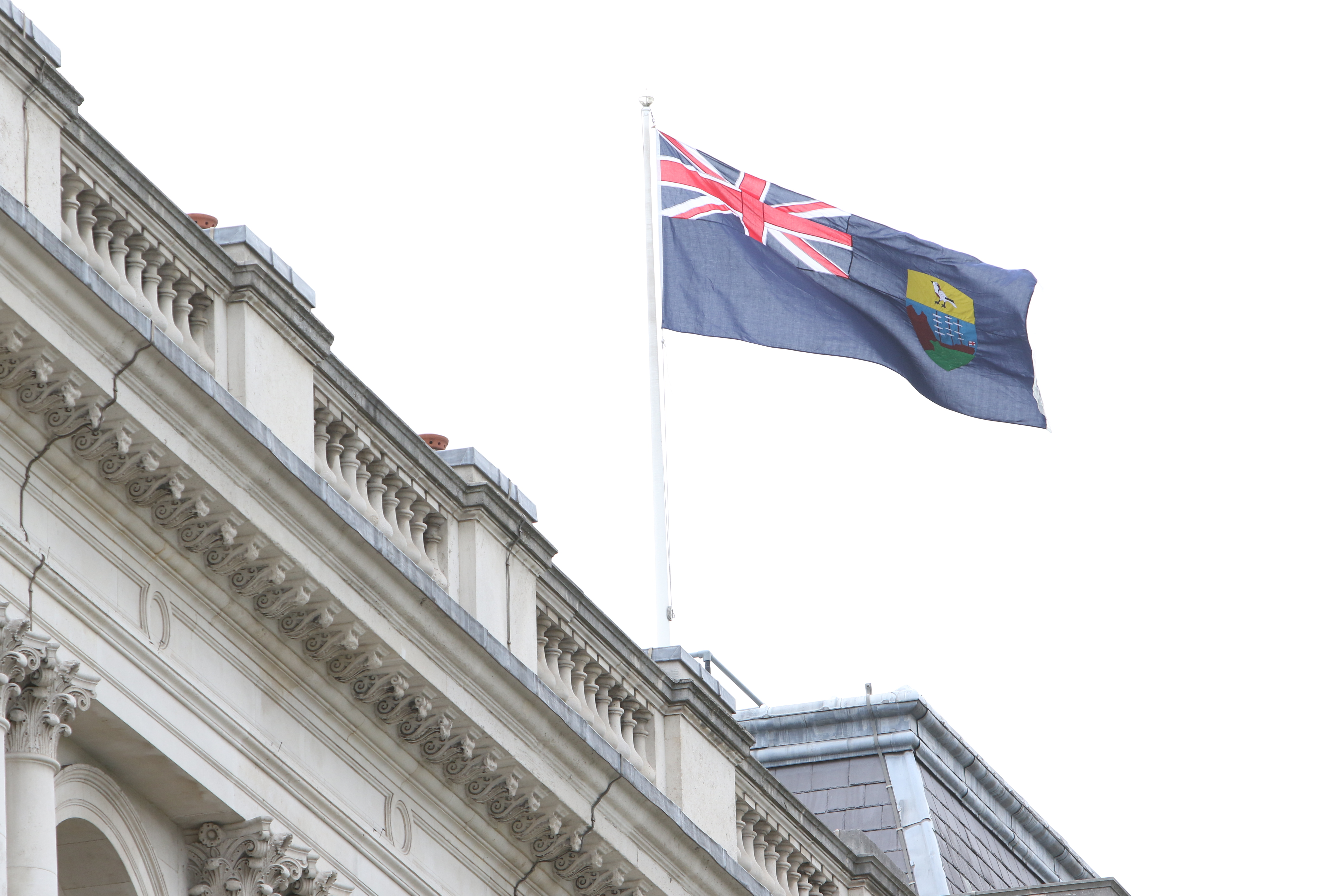 The flag of St Helena flies on the Foreign Office building in London, 21 May 2016.